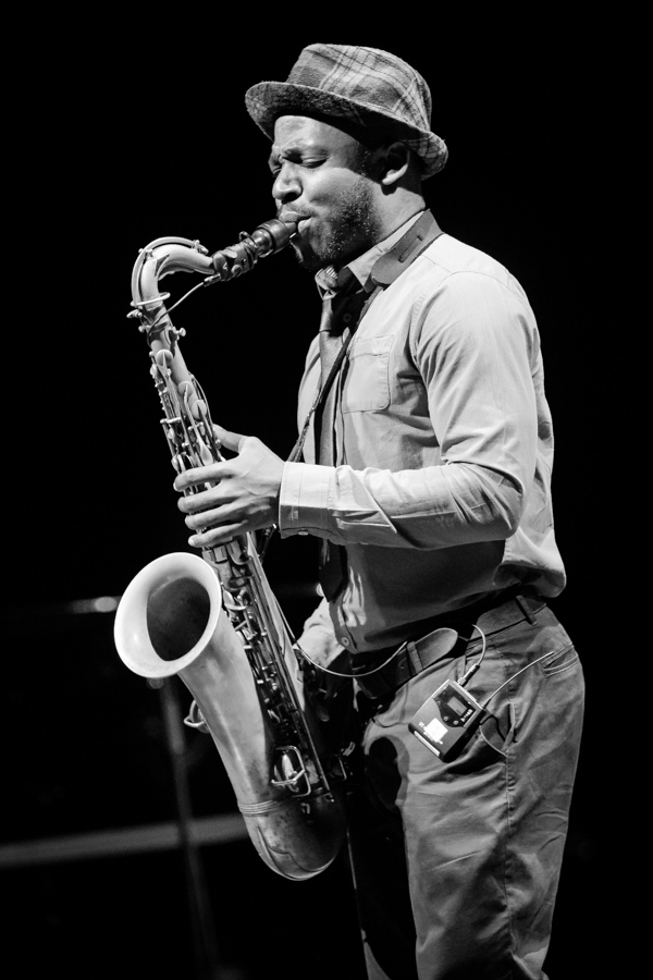 Tivon Pennicott with Gregory Porter in Kongsberg Musikkteater. The concert was part of Kongsberg Jazzfestival and took place on 05. July 2018 in Kongsberg. Lineup:Gregory Porter (vocal)Chip Crawford (piano)Emanuel Harrold (drums)Tivon Pennicott (saxophone)Jahmal Nichols (double bass)